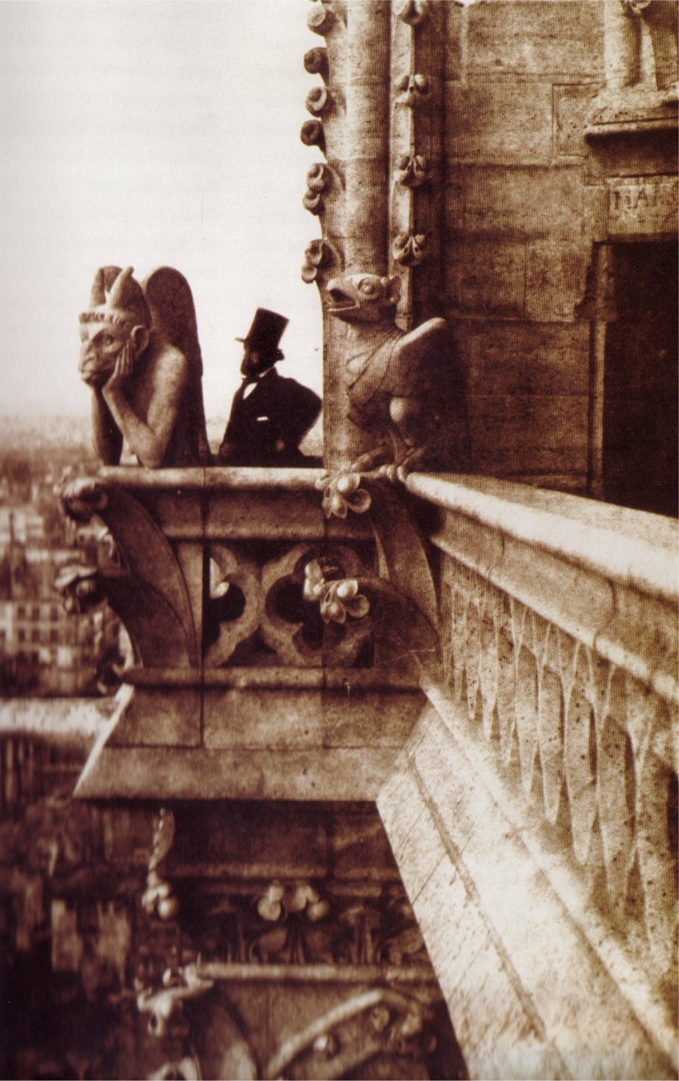 A picture taken by Charles Negre in en:1853. Of Henri Le Secq near the 'Stryge' chimera on Notre Dame de Paris.